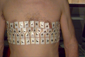 EIT electrodes on a human chest